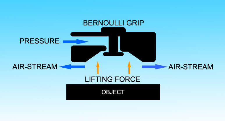 This diagram demonstates how the Bernoulli principle can be used to grip a surface